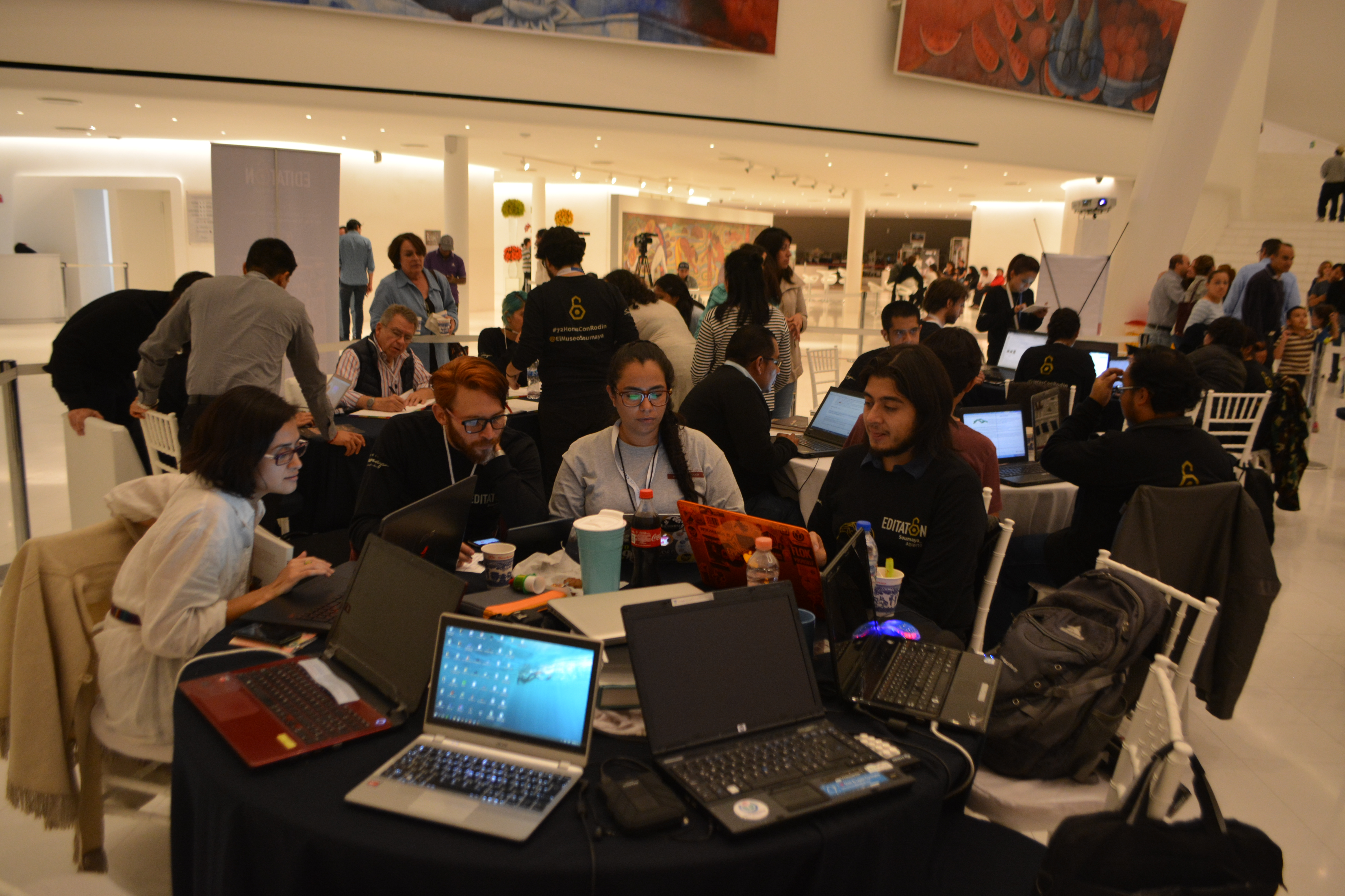 72 hours with Rodin editathon at Museo Soumaya, Mexico City.